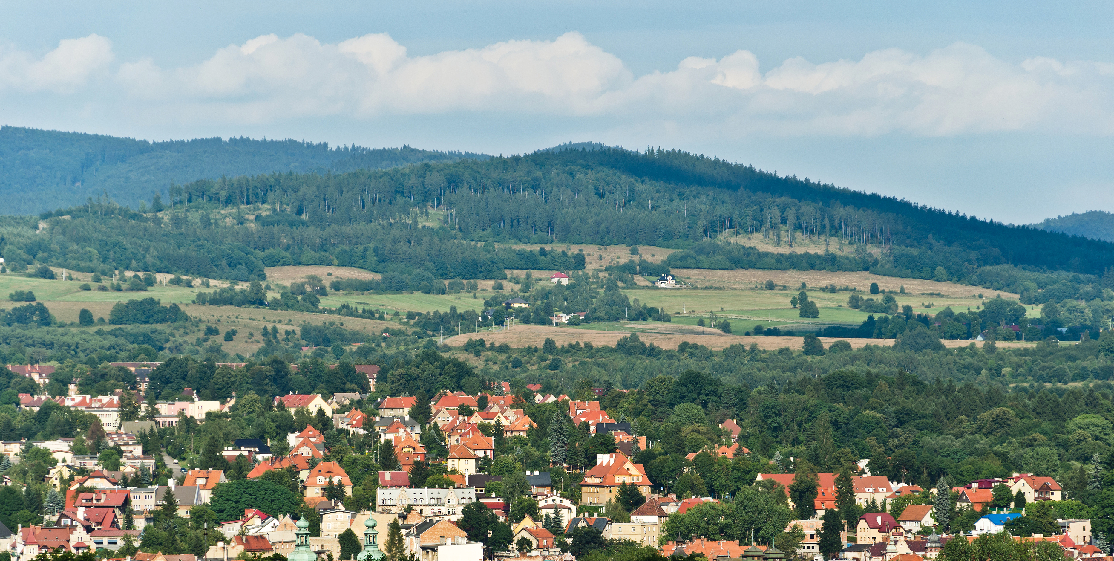 Kłodzka Góra i Ostra Góra, Bardzkie Mountains, Sudetes